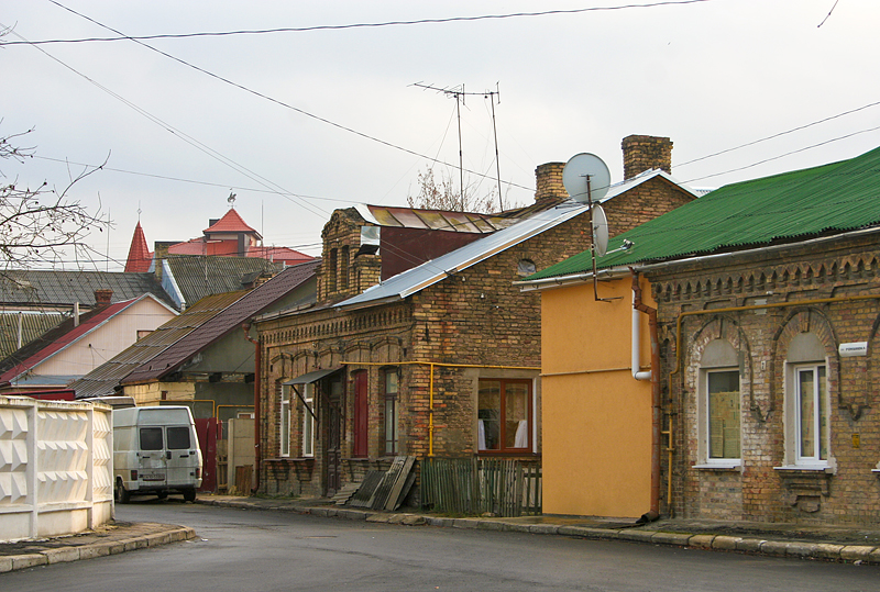 former jewish street